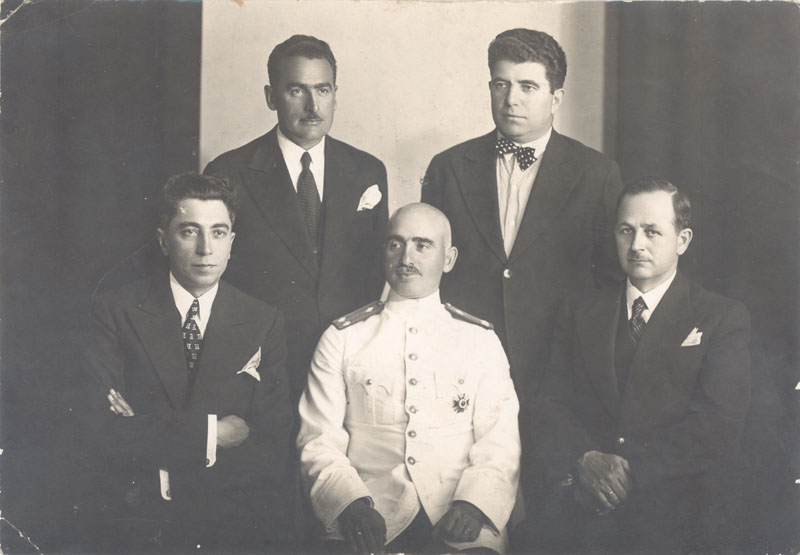 Title: Committee for the construction of the park-mausoleum "Vladislav Varnenchik", Varna Description: left to right: sitting - Yanko Mustakov (mayor of Varna), colonel Petar Dimkov, Nikola Dimitrov (vice-mayor of Varna); upright - lawyer Anton Frangya (honorary consul of Poland in Varna), Krum Smilenov (director of the High commercial school, Varna). Type: postcard Format: 9 x 14 cm Place of publication: Varna Collection: Yaroslav Gochev collection Note: The photography is published for the first time in "Varna Newspaper of the Newspapers", No 10, 4 Aug. 1935, page 2 Ownership of the original hardcopy: Regional library "Pencho Slaveykov"